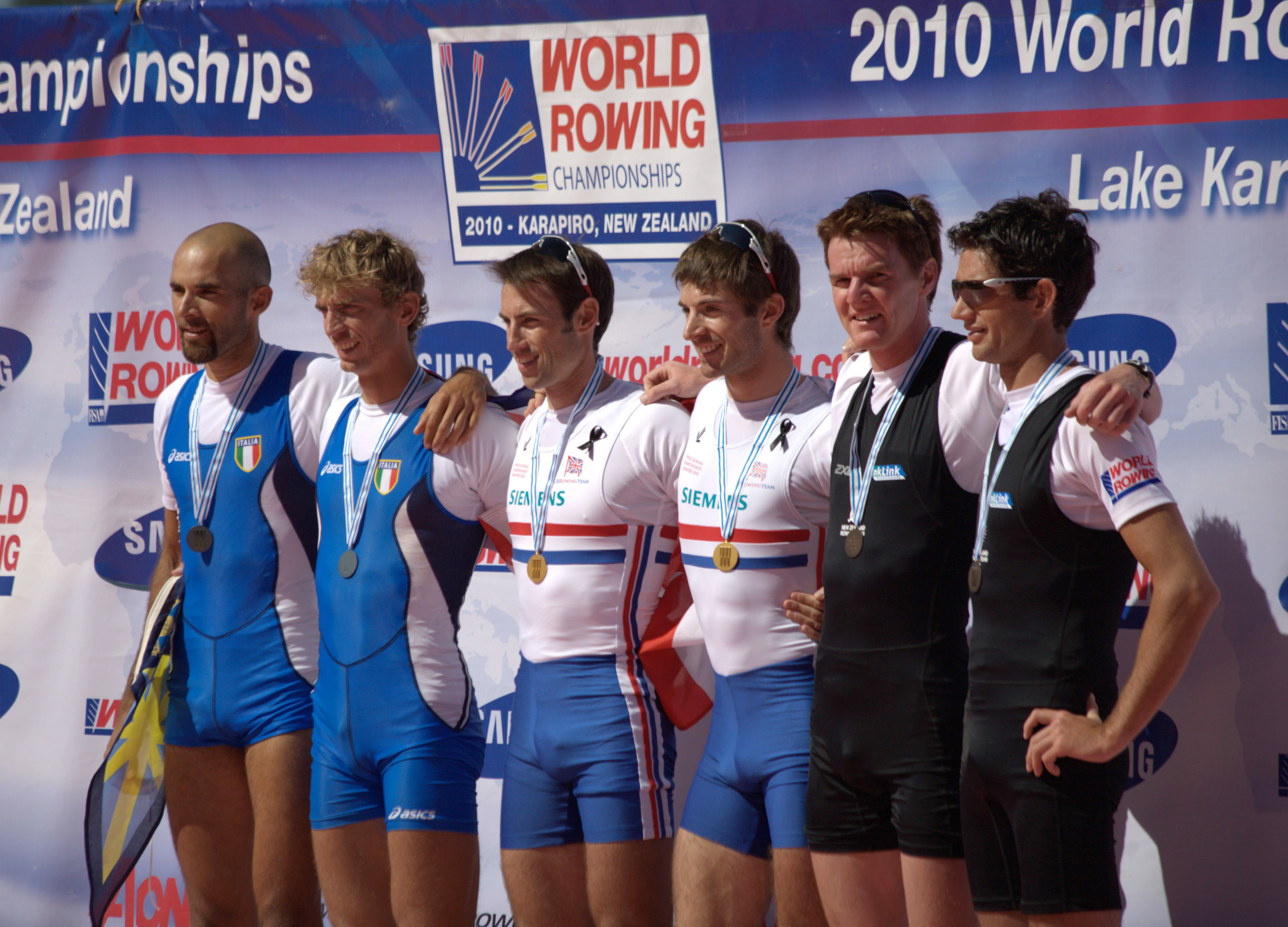 Gold: GB; silver: Italy; bronze: New Zealand 2010 World Rowing Championships.